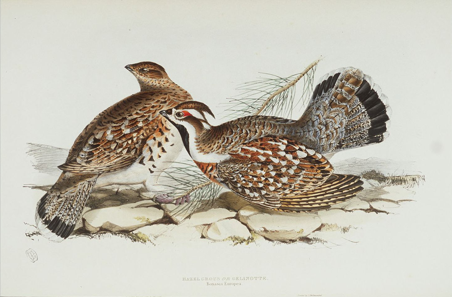 Hazel Grous or Gelinotte, Bonasa bonasia. Drawn from Nature and on Stone by John and Elizabeth Gould. 4 pl. 9 (as Bonasia Euroaea).